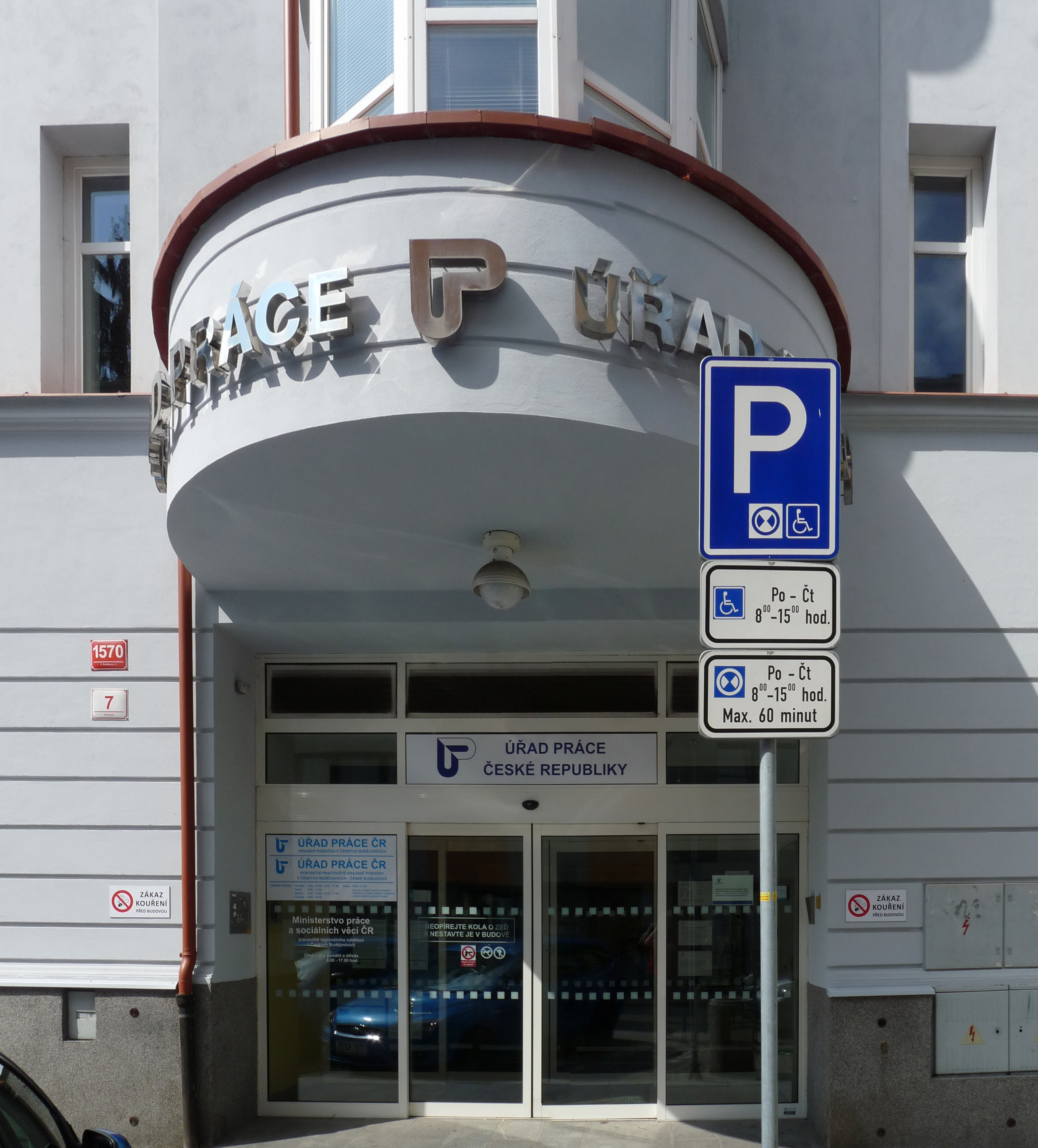 Local state employment office in the city of České Budějovice, South Bohemian Region, Czech Republic.